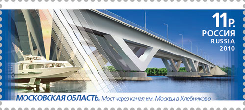 The bridge across the Moscow Canal in the village Khlebnikovo Moscow region (stamp)